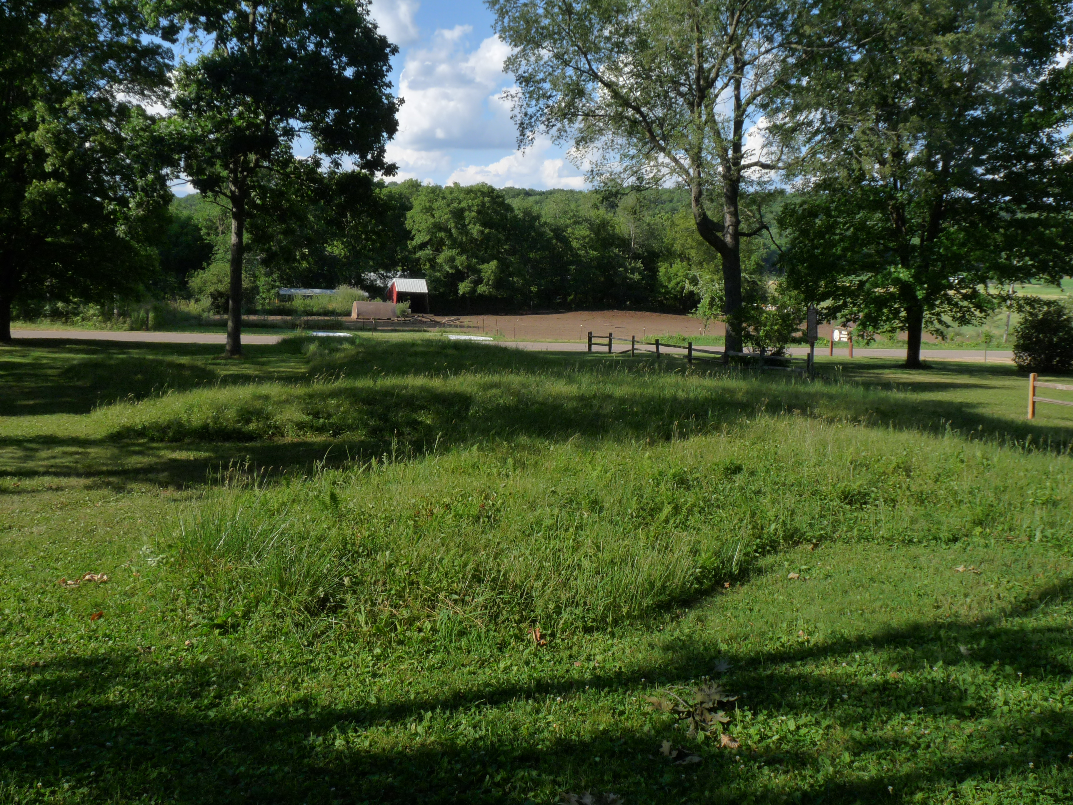 Man Mound east of Baraboo, Wisconsin is the only remaining man-shaped effigy mound in the upper Midwest. The photo looks down from the head-dress, with a shoulder and arm on the left. The feet once stretched across the road. The site is listed on the National Register of Historic Places.